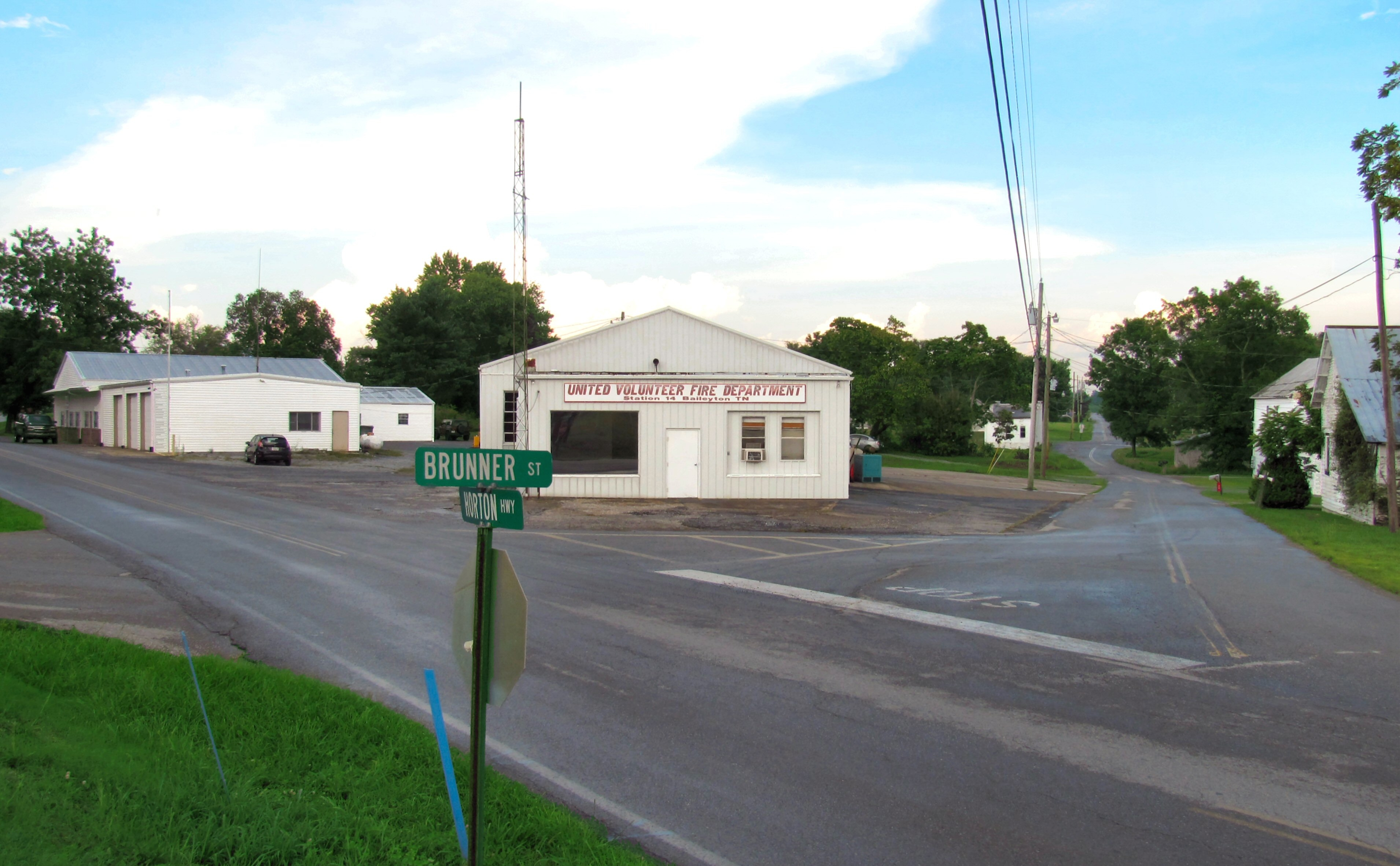 United Volunteer Fire Department (center) and Baileyton Town Hall (back, left), viewed from the intersection of Brunner Street and Horton Highway in Baileyton, Tennessee, United States.